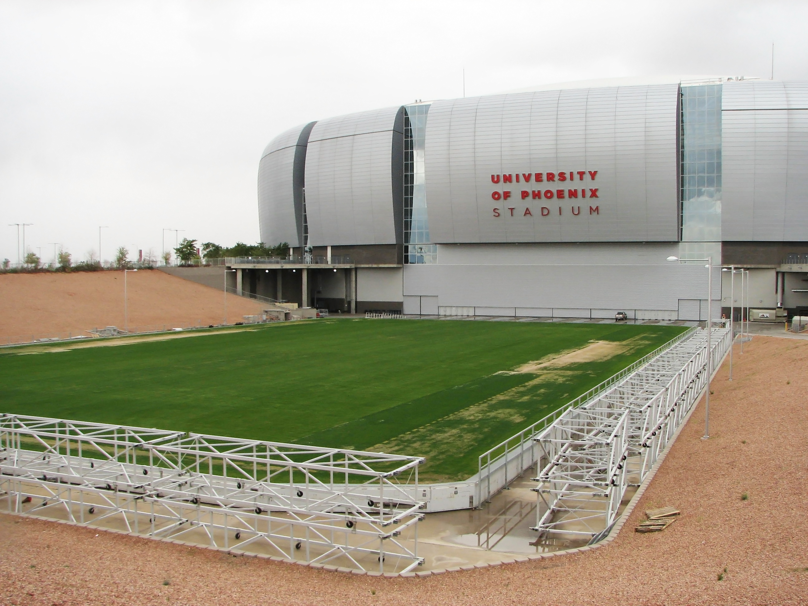 Removable field outside the University of Phoenix Stadium, Glendale, Arizona, USA